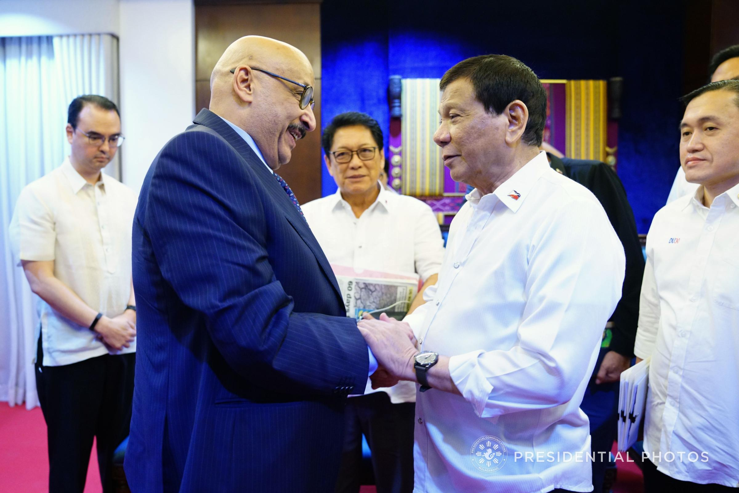 President Rodrigo Roa Duterte and Ambassador of Kuwait to the Philippines Musaed Saleh Ahmad Althwaikh exchange pleasantries following their meeting at the Presidential Guest House in Davao City on April 23, 2018. Also in the photo are Foreign Affairs Secretary Alan Peter Cayetano, Labor and Employment Secretary Silvestre Bello III and Special Assistant to the President Christopher Bong Go. (Arman Baylon/Presidential Photo)